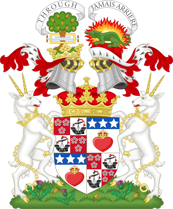 coat of arms of the duke of Hamilton and Brandon Arms.Quarterly: 1st and 4th grandquarters: quarterly: 1st and 4th, Gules three Cinquefoils Ermine (Hamilton); 2nd and 3rd, Argent a Lymphad with the sails furled proper flagged Gules (Arran); 2nd and 3rd grandquarters: Argent a Heart Gules imperially crowned Or on a Chief Azure three Mullets of the first (Douglas). Crest. 1st, on a Ducal Coronet an Oak Tree rutted and penetrated transversely in the main stem by a Frame Saw proper the frame Or (Hamilton); 2nd, on a Chapeau Gules turned up Ermine a Salamander in flames proper (Douglas). Supporters. On either side an Antelope Argent armed unguled ducally gorged and chained Or. Motto. Over 1st crest: Through; Over 2nd crest: Jamais Arriere (Never Behind). Cracroft's Peerage